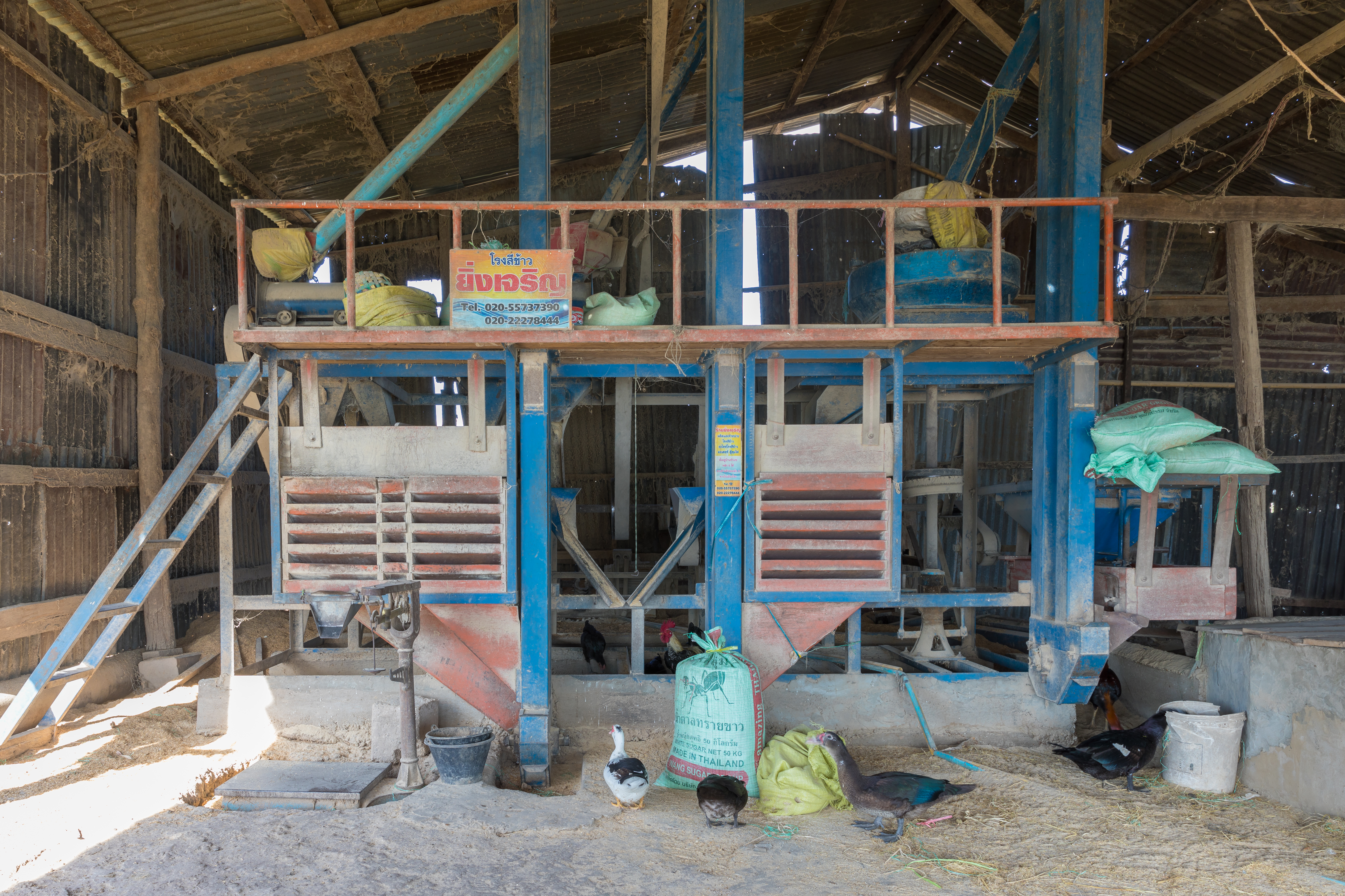 Rice mill in a hangar of Don Som, Si Phan Don, Laos